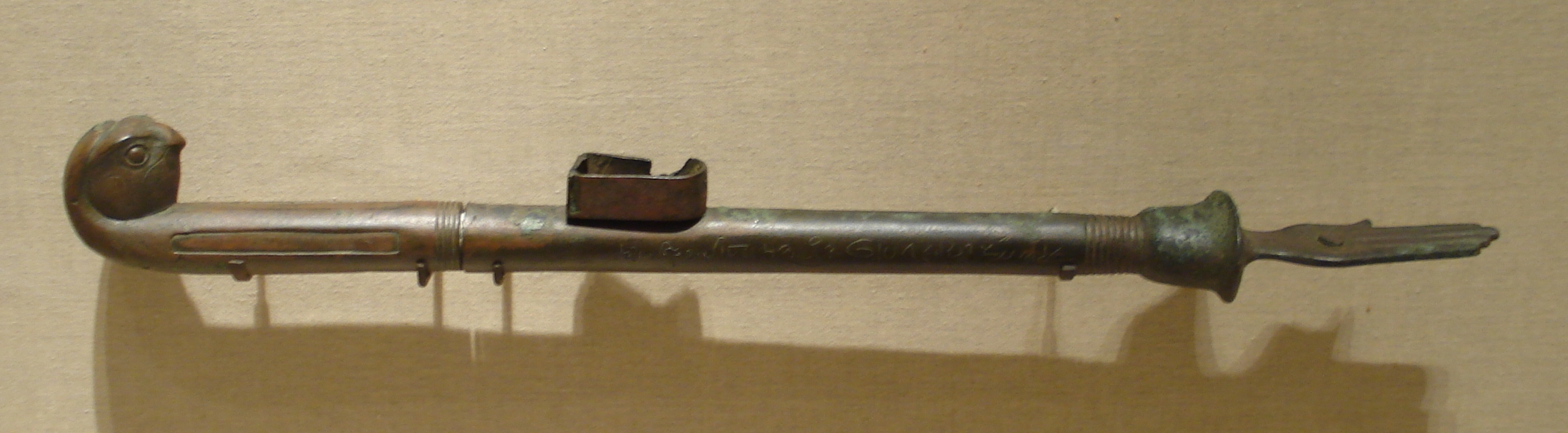 Ancient Egyptian censer, shaped like an arm. Bronze. Third Intermediate Period-Late Period, c. 712-404 BC.